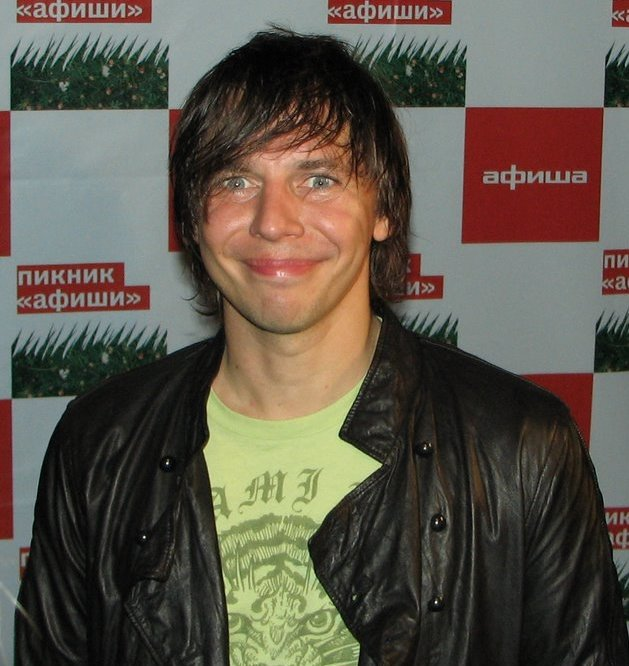 Ilia Lagutenko